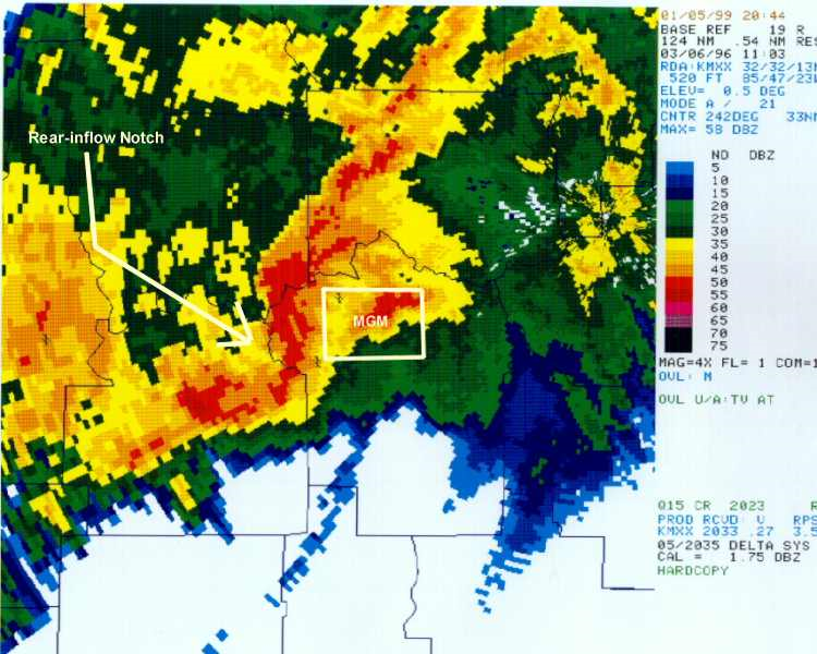 A clusters of thunderstorms rapidly evolved into a 100 km long squall line. By 1051 UTC, the southern half of the squall line took the shape of a Line Echo Wave Pattern (LEWP). Updrafts were strengthening as evident in increasing radar reflectivities between 3 and 6 km. Between 1057 and 1103 UTC, a significant bowing line segment and associated rear-inflow notch (Przybylinski 1995) developed over northwestern Montgomery County, or just west of the city of Montgomery.